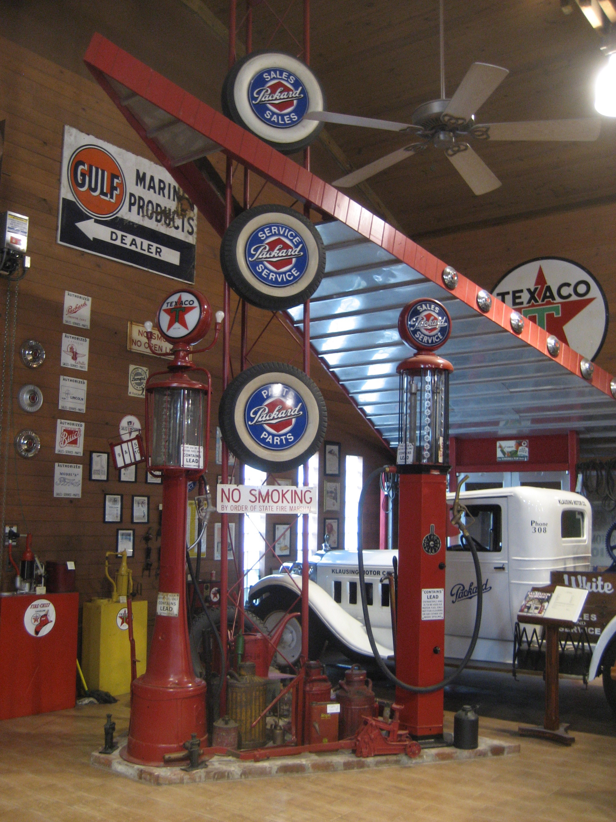 Old gas pumps and Packard advertising, on display at Fort Lauderdale Antique Car Museum.